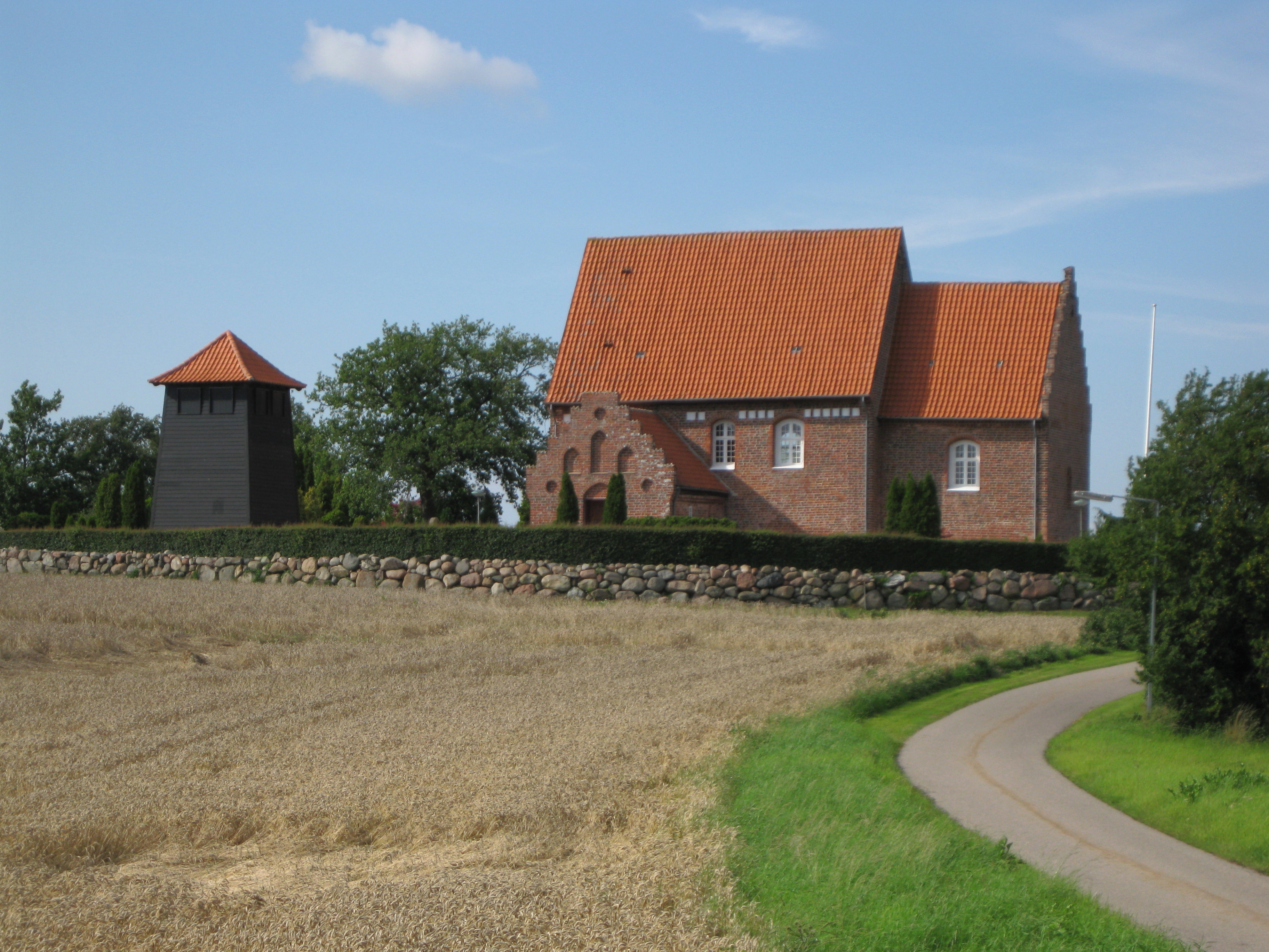 The church "Holeby Kirke" in the small town "Holeby". The town is located on the island Lolland in east Denmark.